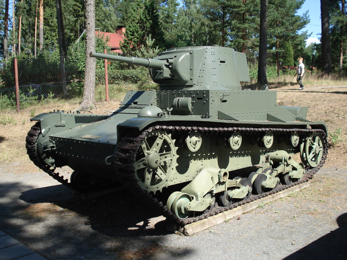 Finnish 6-ton Vickers tank, manufactured in Britain in 1939. This tank was upgunned with a captured Soviet 45 mm gun in a T-26 turret during the war. Displayed in Finnish Tank Museum (Panssarimuseo) in Parola. Photo taken on July 14, 2006. Source: Photo by me, User:Balcer.